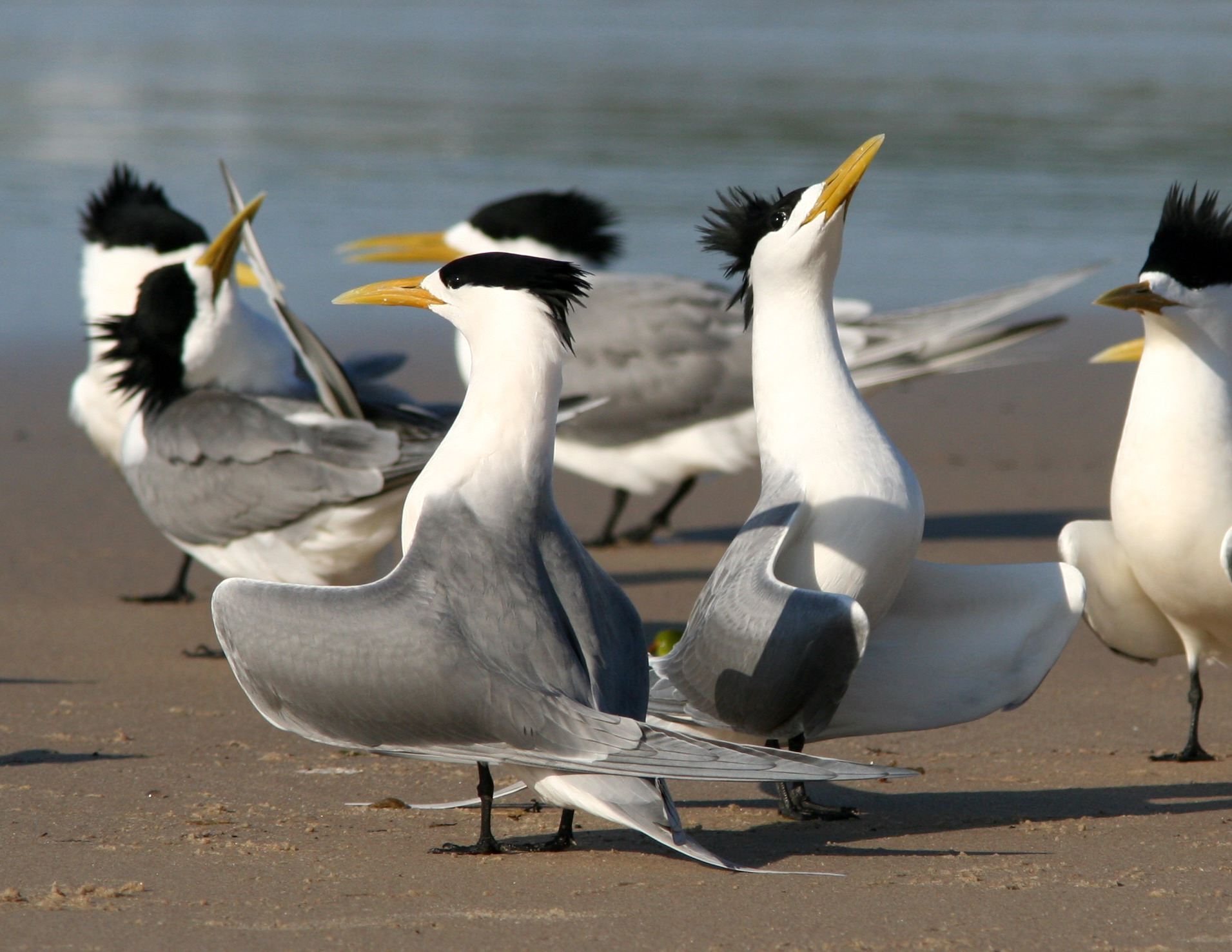 Crested Tern, Thalasseus bergii (Syn. Sterna bergii), courtship display.